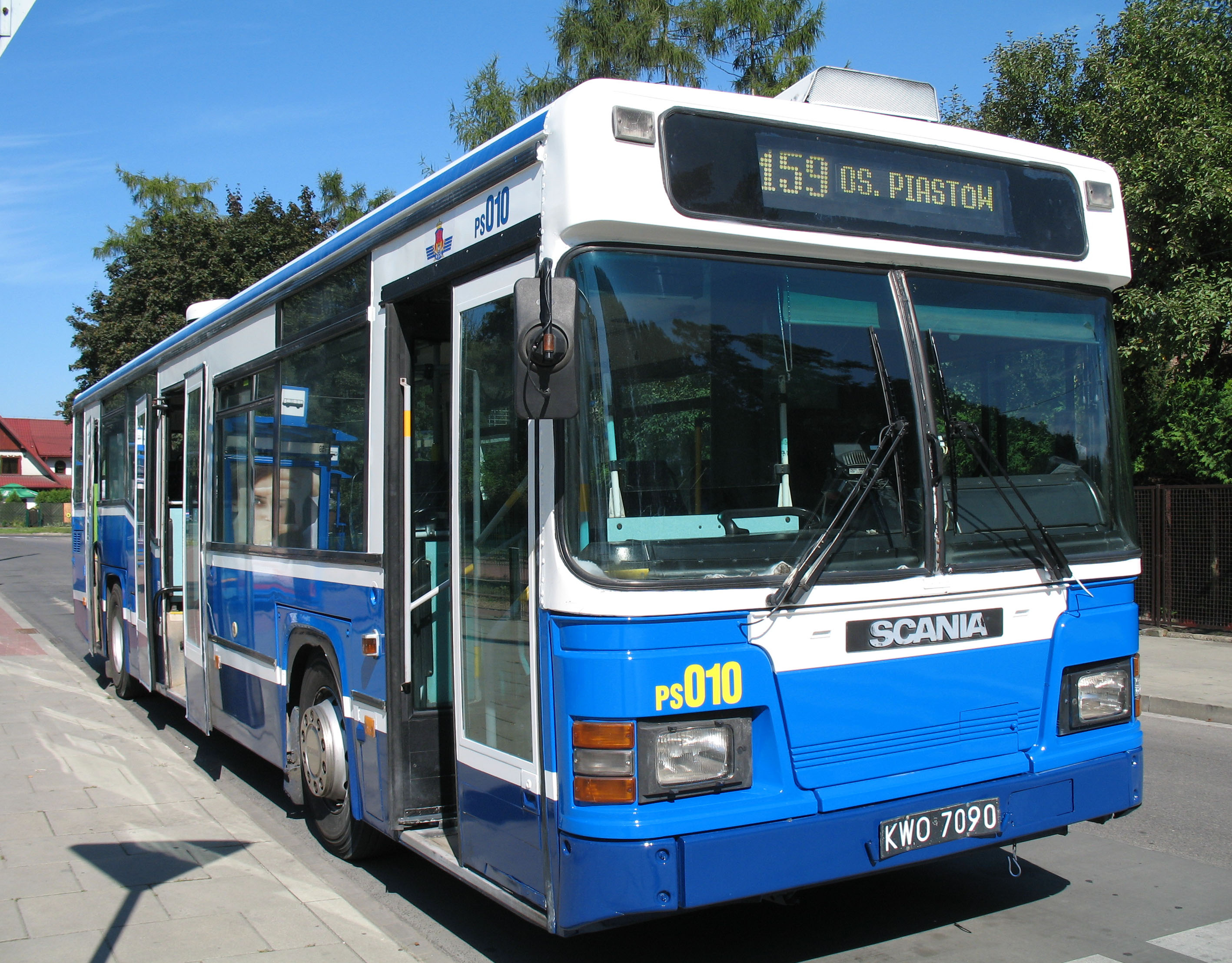 Scania CN113CLL low entry bus (#PS010) in Kraków, Poland. Built 1995, MPK Kraków operator.